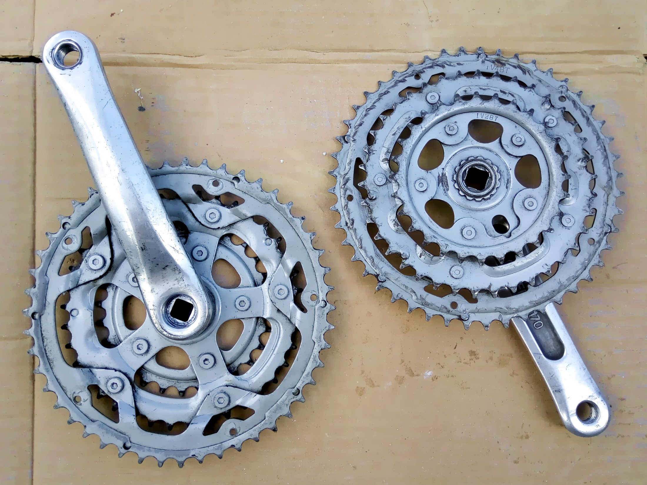 Cheap triple gasket with riveted crowns